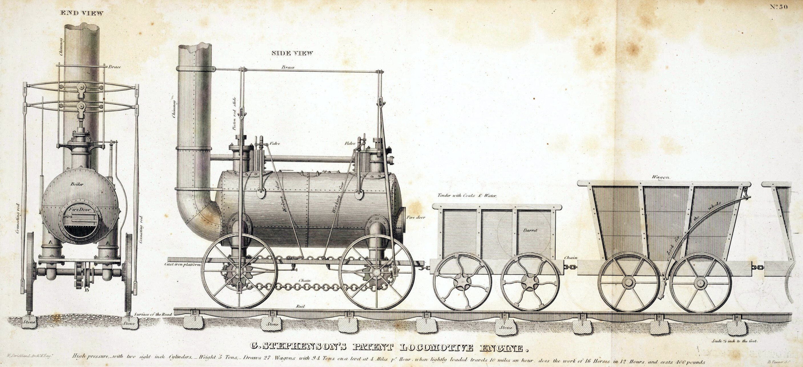 "G. Stephenson's Patent Locomotive Engine" end and side views. Note that this is probably an engine from the Hetton Colliery Railway, and pre-dates the Stockton and Darlington. Strickland visited England between March and December 1825, including the Stockton-Darlington Railway.